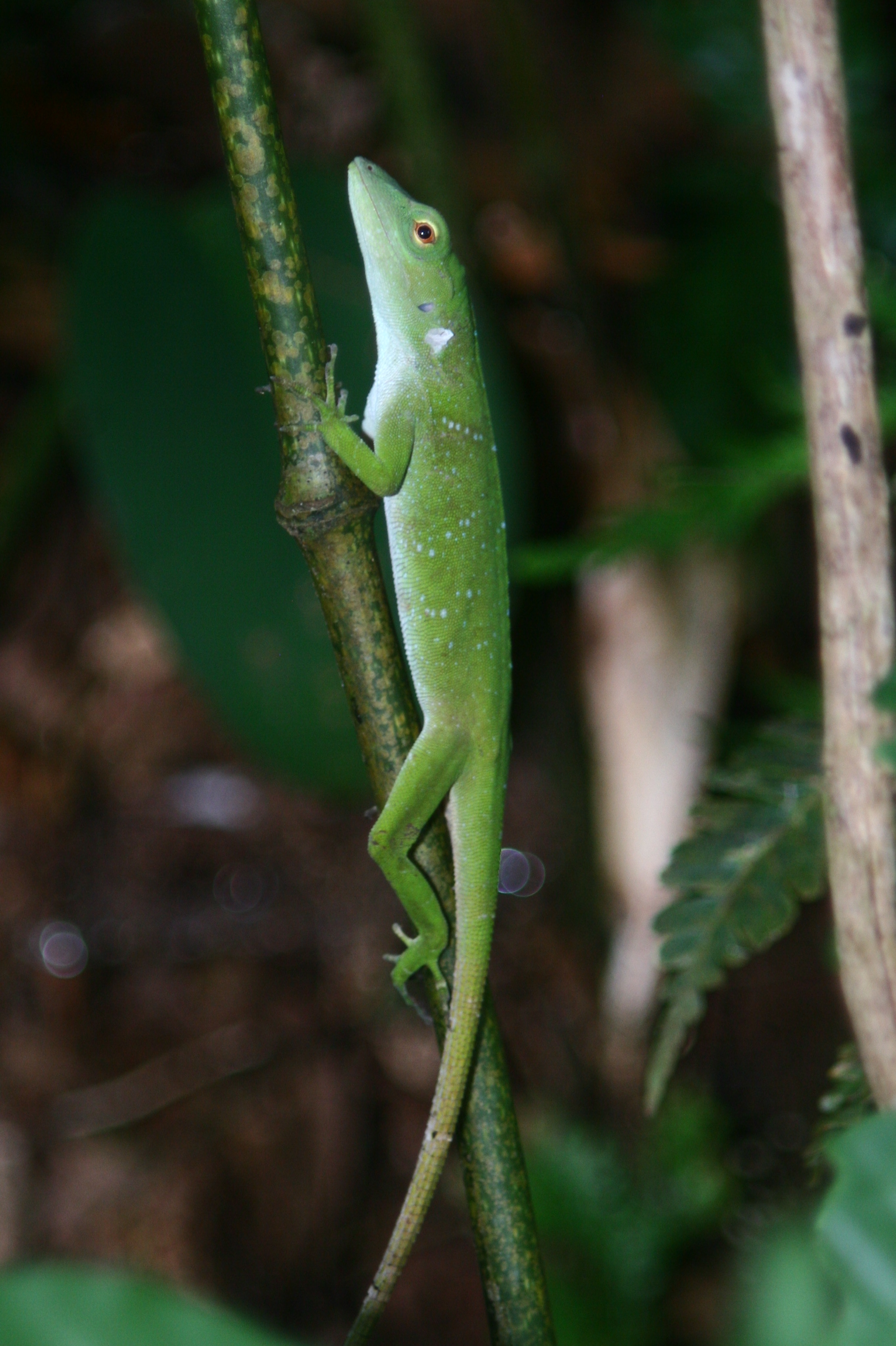 Neotropical green anole on vegetation in Tortuguero, Limon, Costa Rica